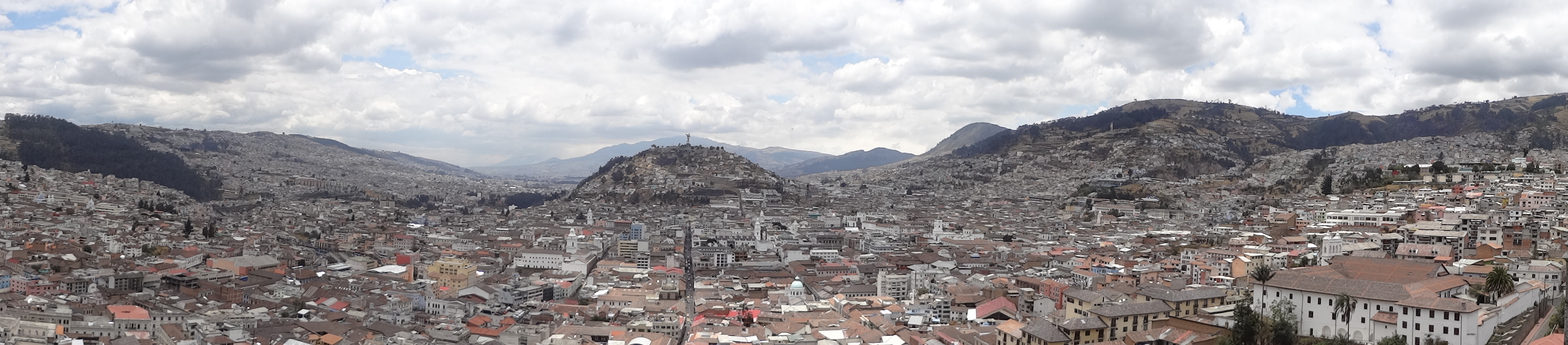 A view from the top of the Basílica del Voto Nacional